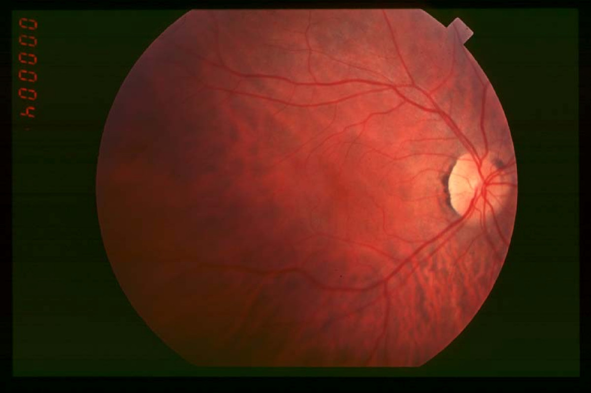 Fundus of patient with retinitis pigmentosa, early stage. Hamel Orphanet Journal of Rare Diseases 2006 1:40